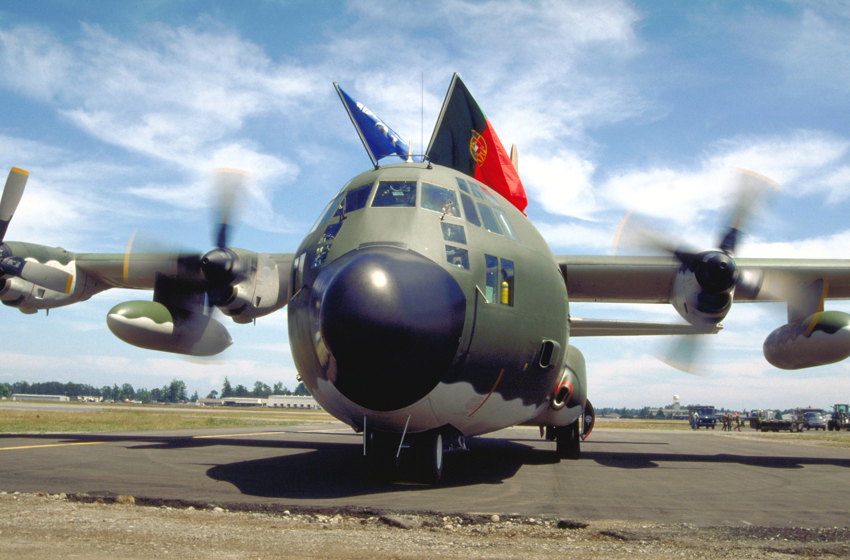 The Portuguese Air Force C-130 arrives at McChord AFB. The Portuguese are here to participate in RODEO 94 at McChord AFB, Washington.